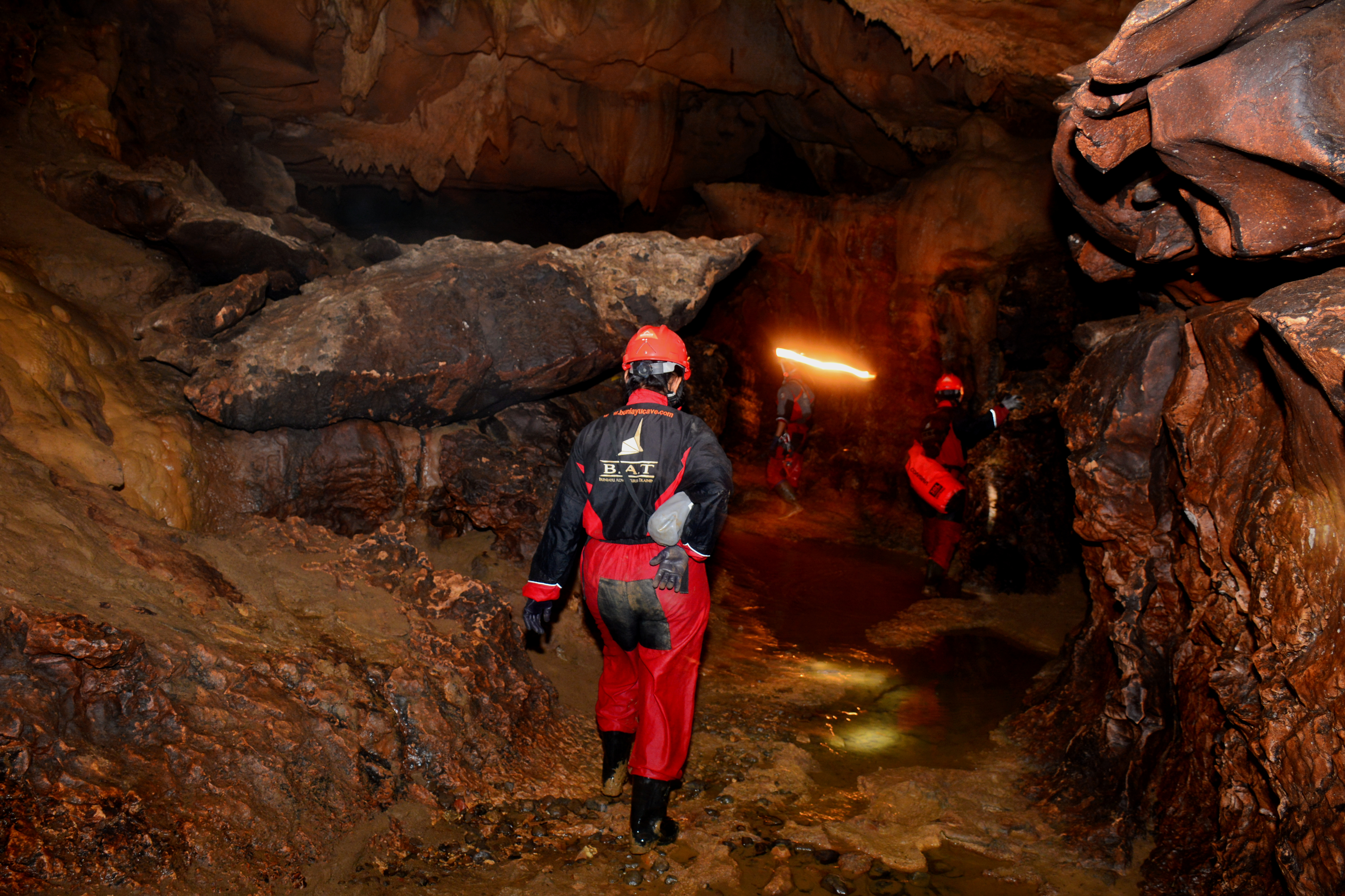 various rock formations and types can be found inside Buniayu Cave, West Java, Indonesia